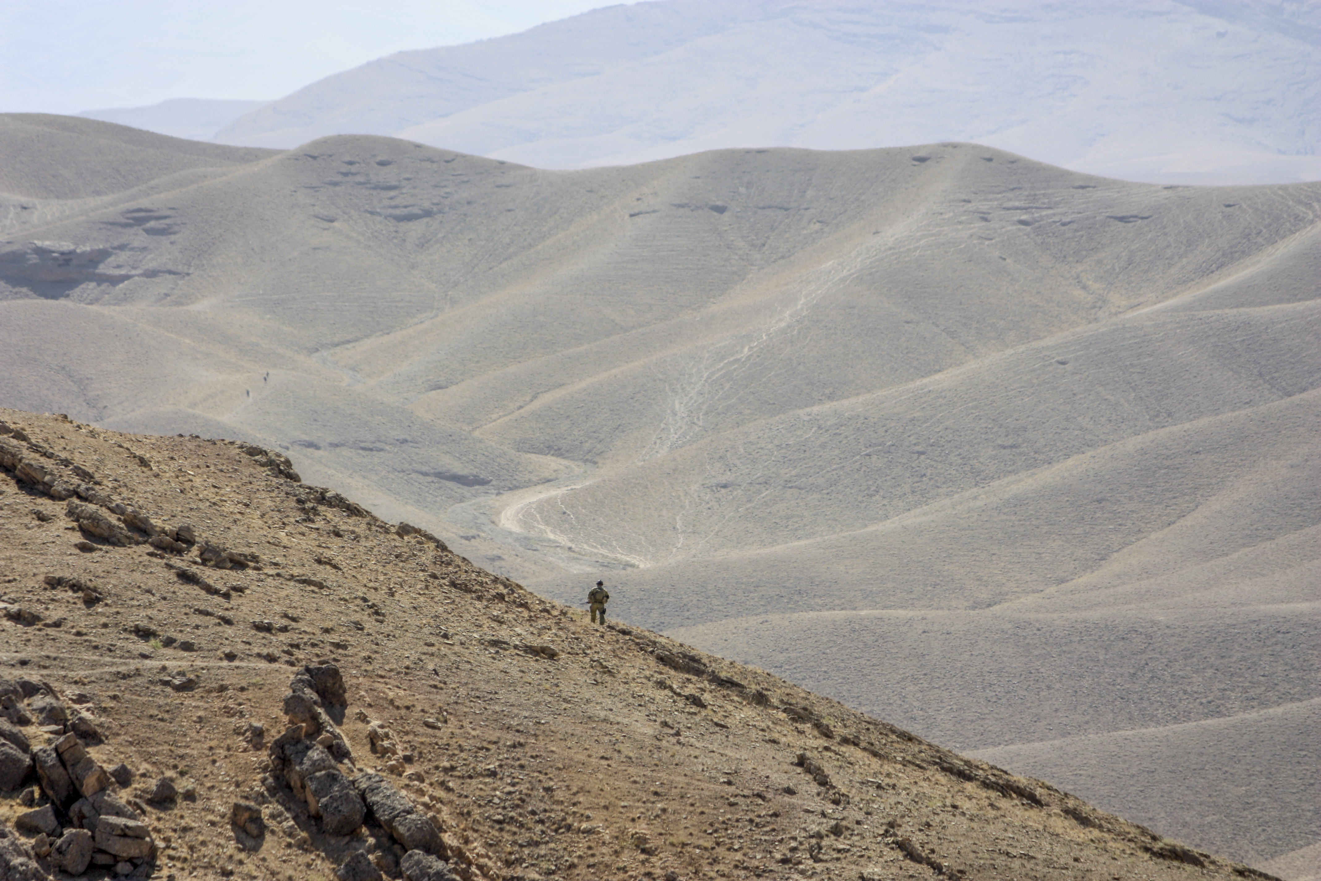 soldier on mountain